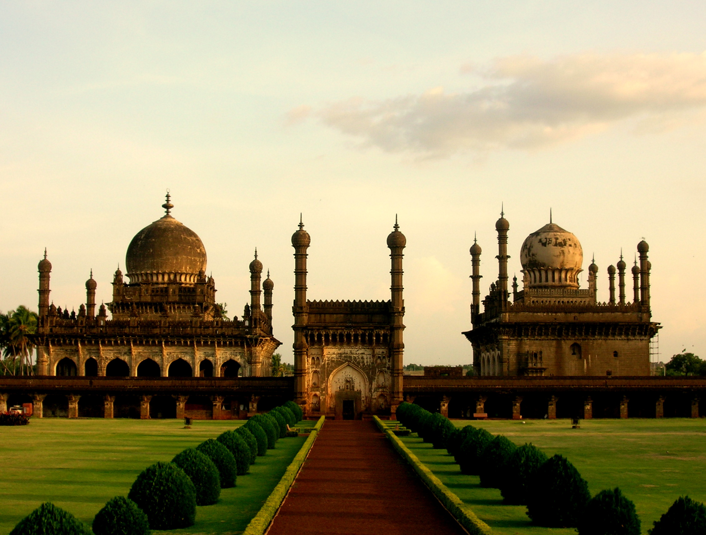 Ibrahim Rouza